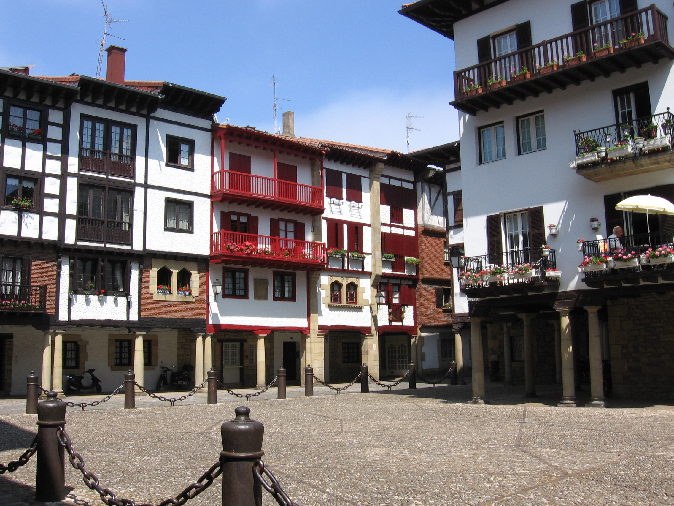 Place in Hondarribia, Guipúzcoa, Basque Country, Spain